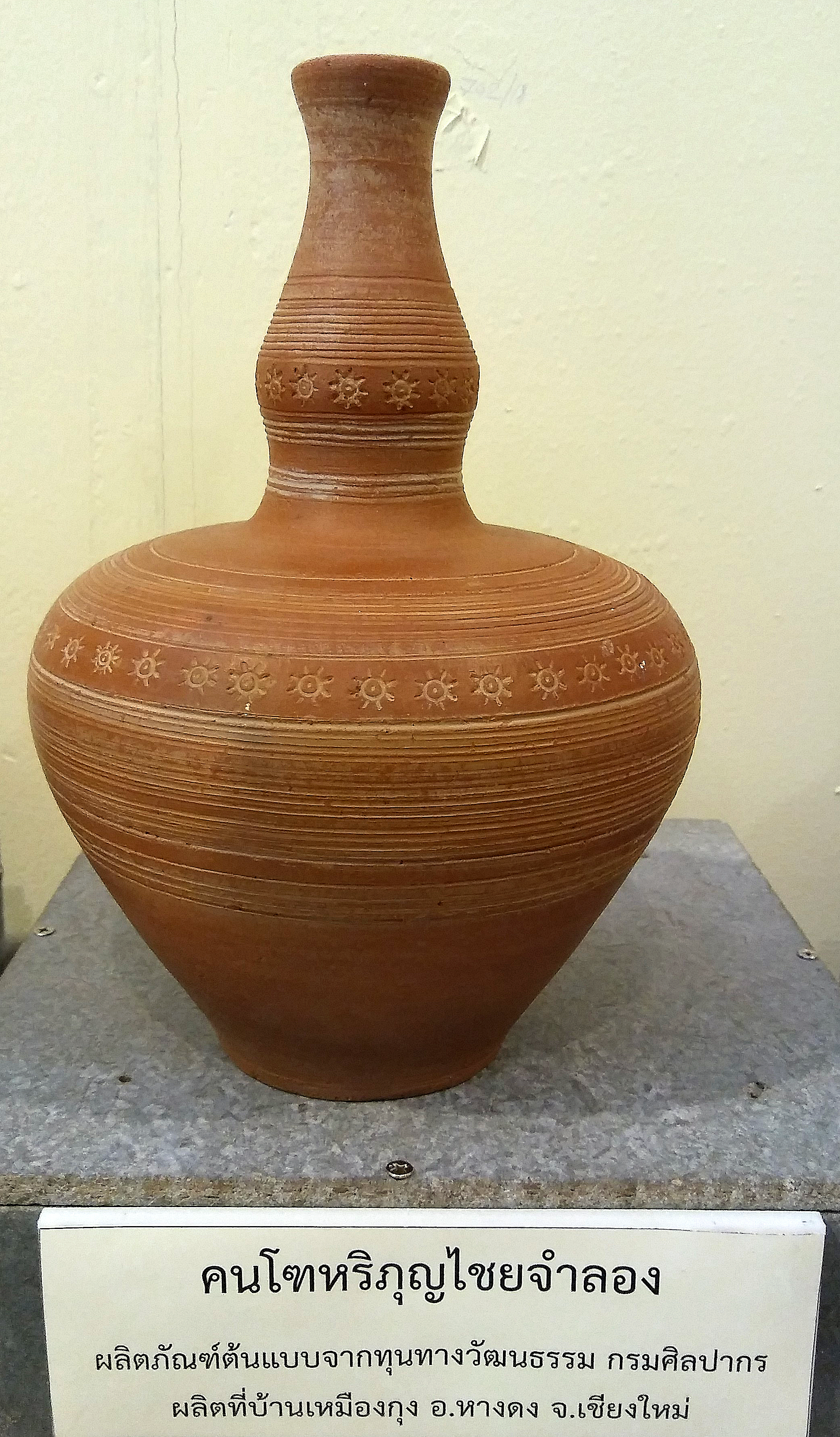 Hariphunchai National Museum, Lamphun, Thailand; glazed earthenware in the permanent exhibition of the museum